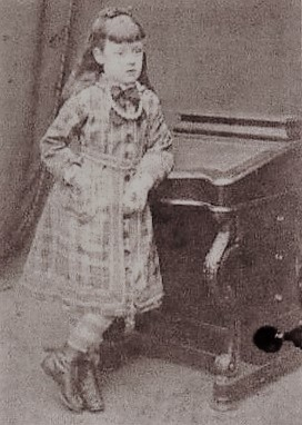 Daughter of Jack the Ripper's second canonical victim. Her death from meningitis at the age of twelve in 1882 increased her mother's alcohol dependency and general lifestyle that led to her death.